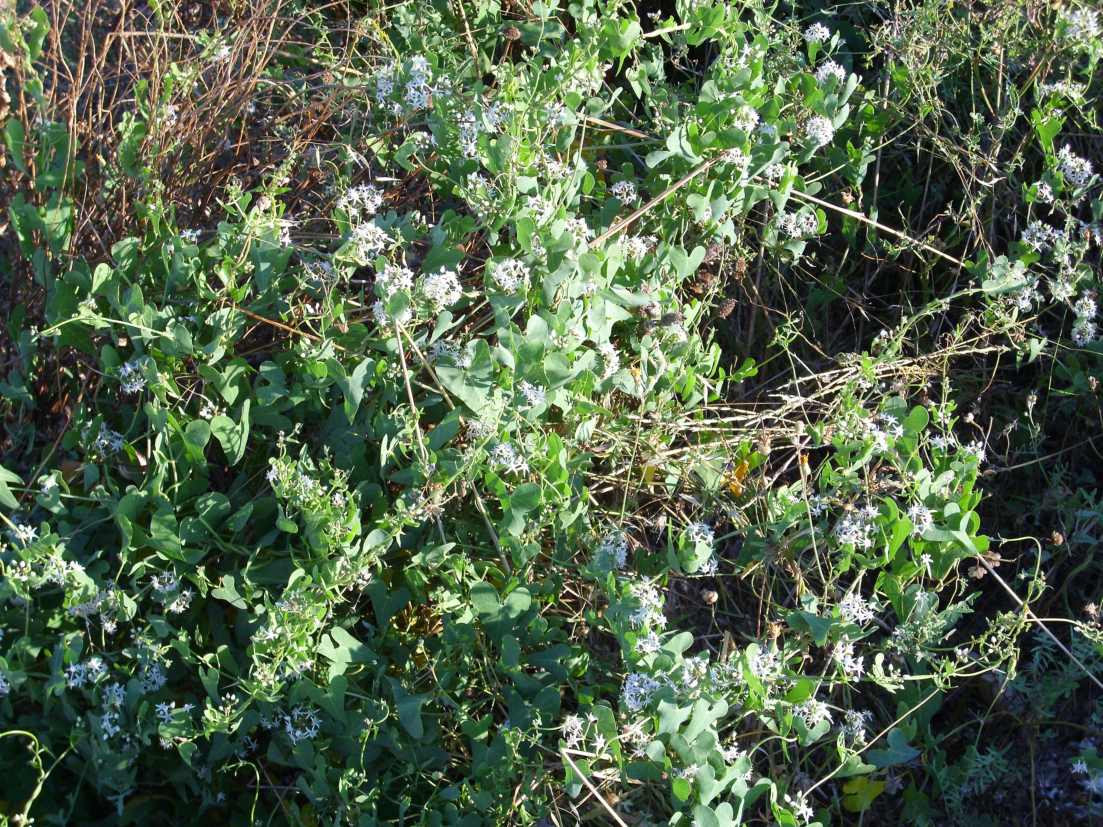 Cynanchum acutum habit, La Mata, Torrevieja, Alicante, Spain.